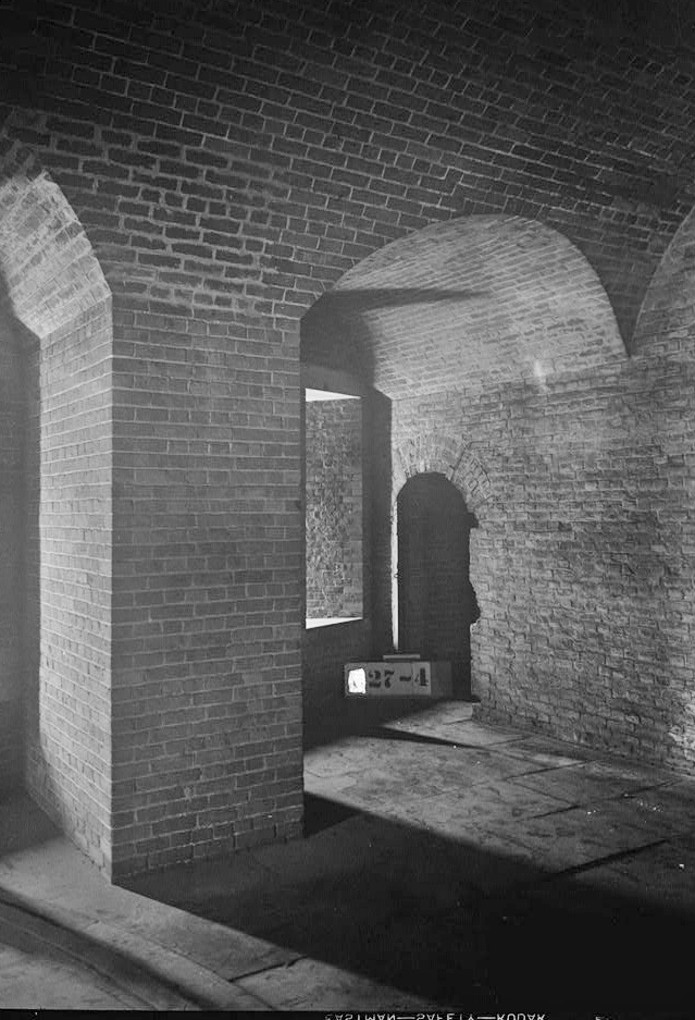 Fort Wayne, Detroit, Gun Emplacement. Historic American Buildings Survey—HABS image (1934).